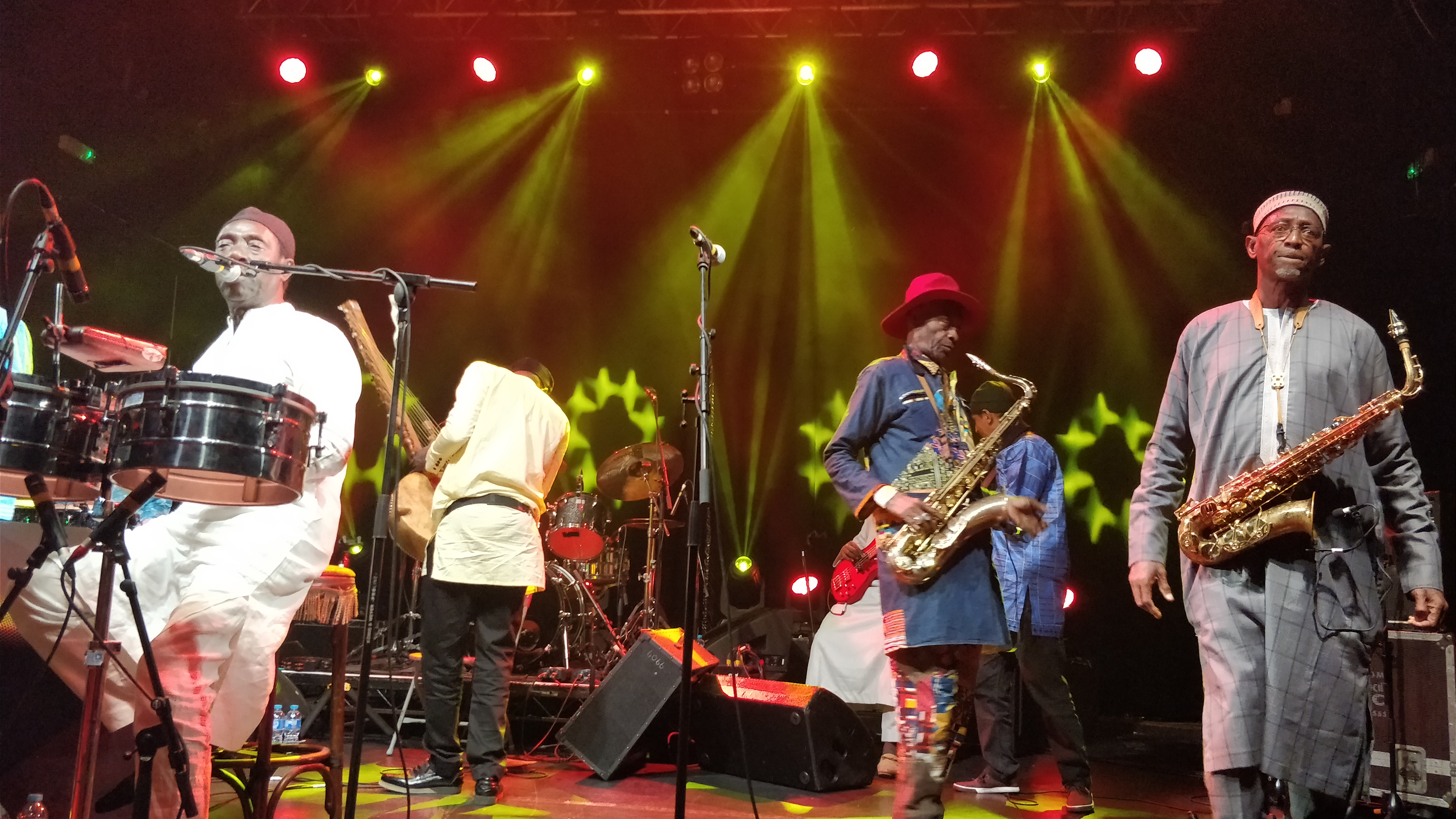 Orchestra Baobab performing live at KOKO, London, on 30 October 2017.